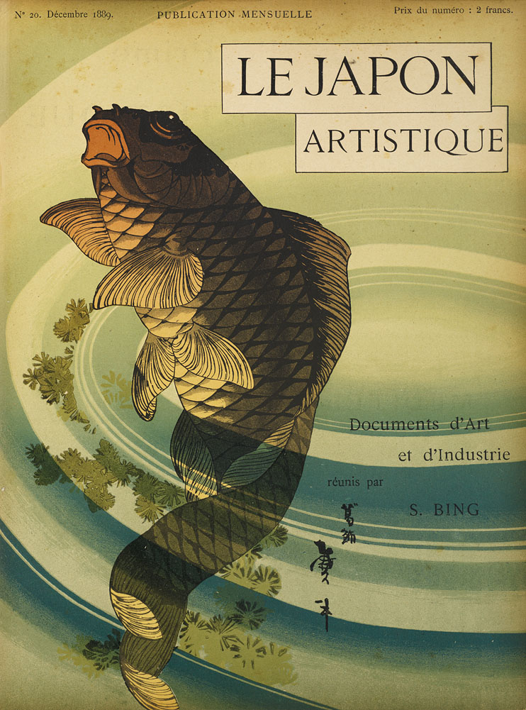 Le Japon artistique publication mensuelle no.20 décembre 1889